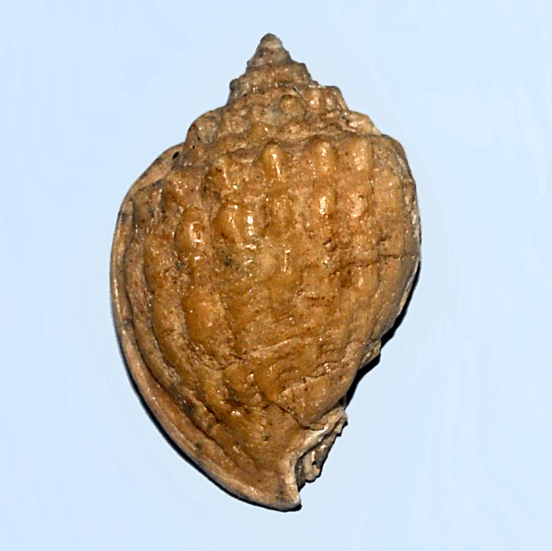 Fossil shell of Semicassis rondoletii, on display at the Museo Paleontologico Giulio Maini, Ovada